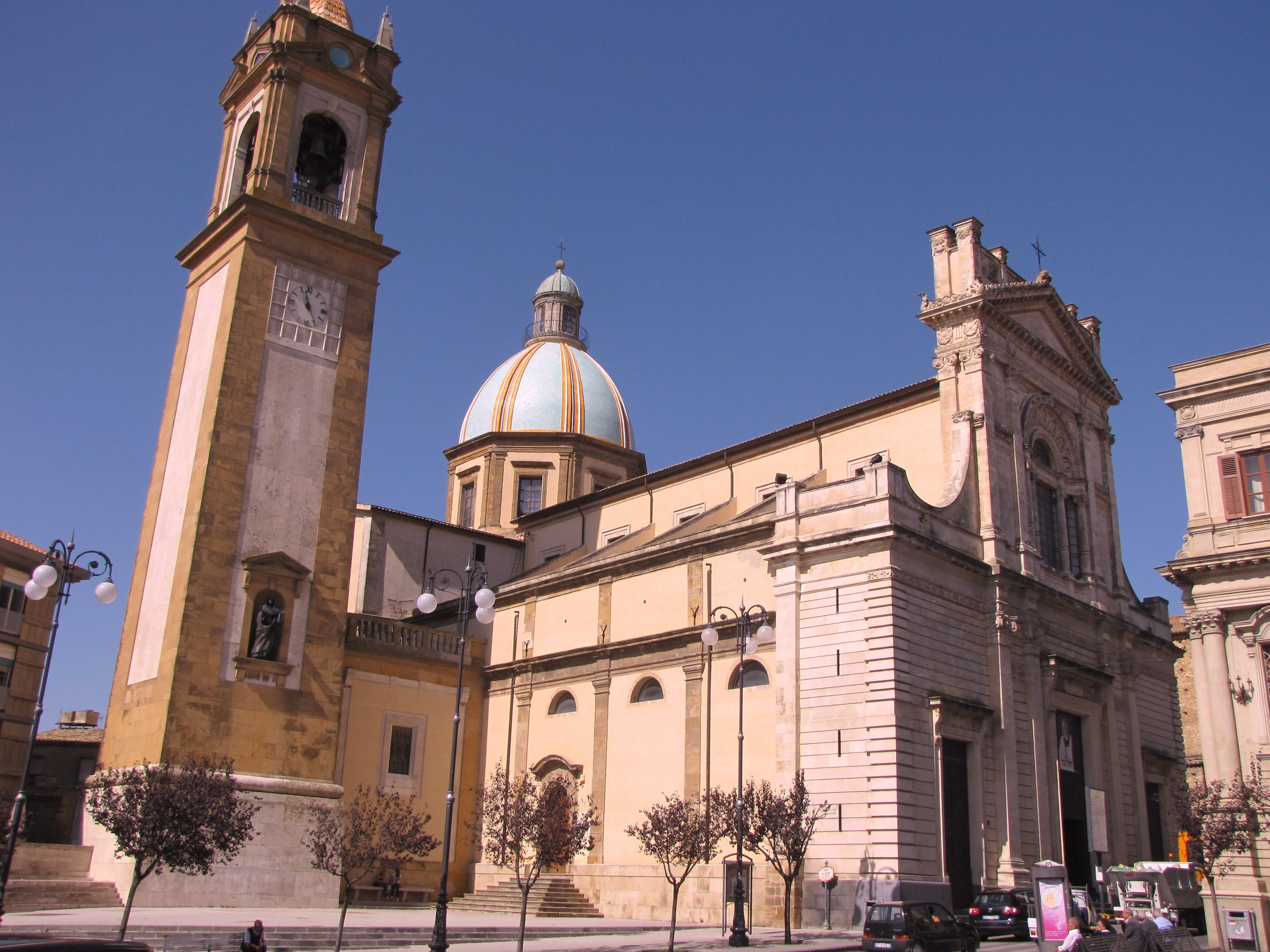 The Cathedral of Caltagirone,Provence of Catania-Sicily